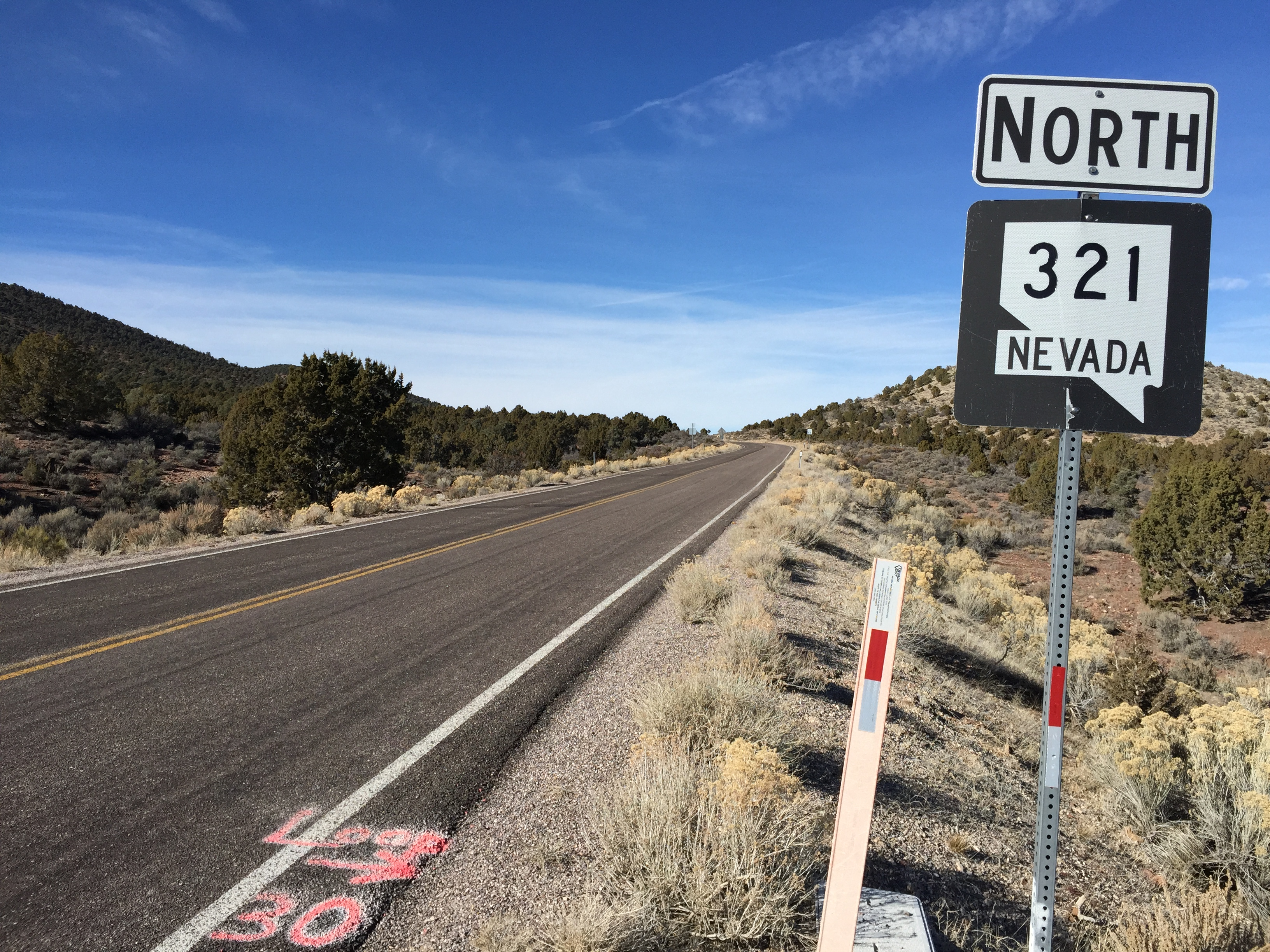 View north from the south end of Nevada State Route 321 at U.S. Route 93 near Pioche, Nevada